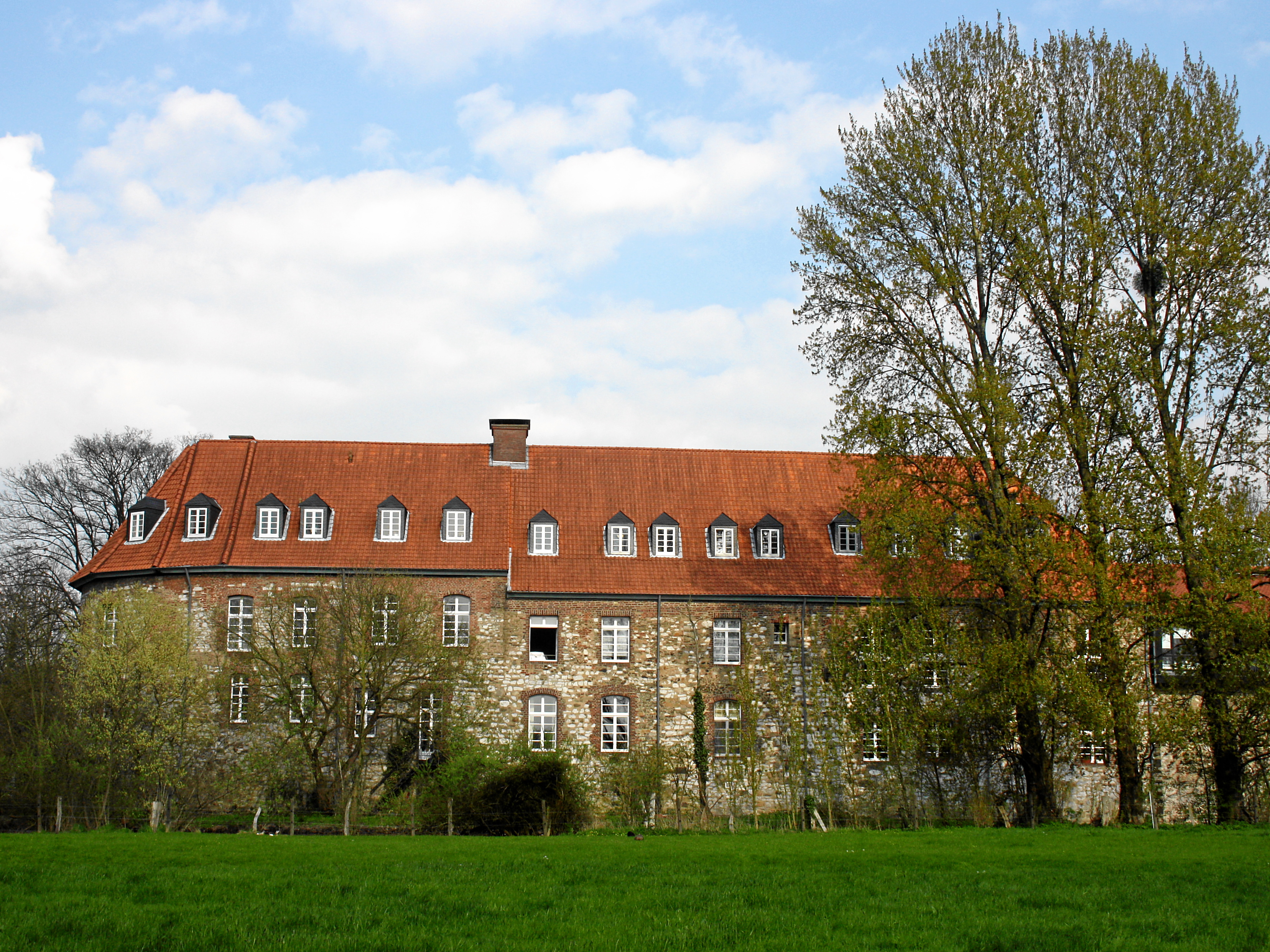 Düsseldorf, Germany. Castle Angermund, view from West.